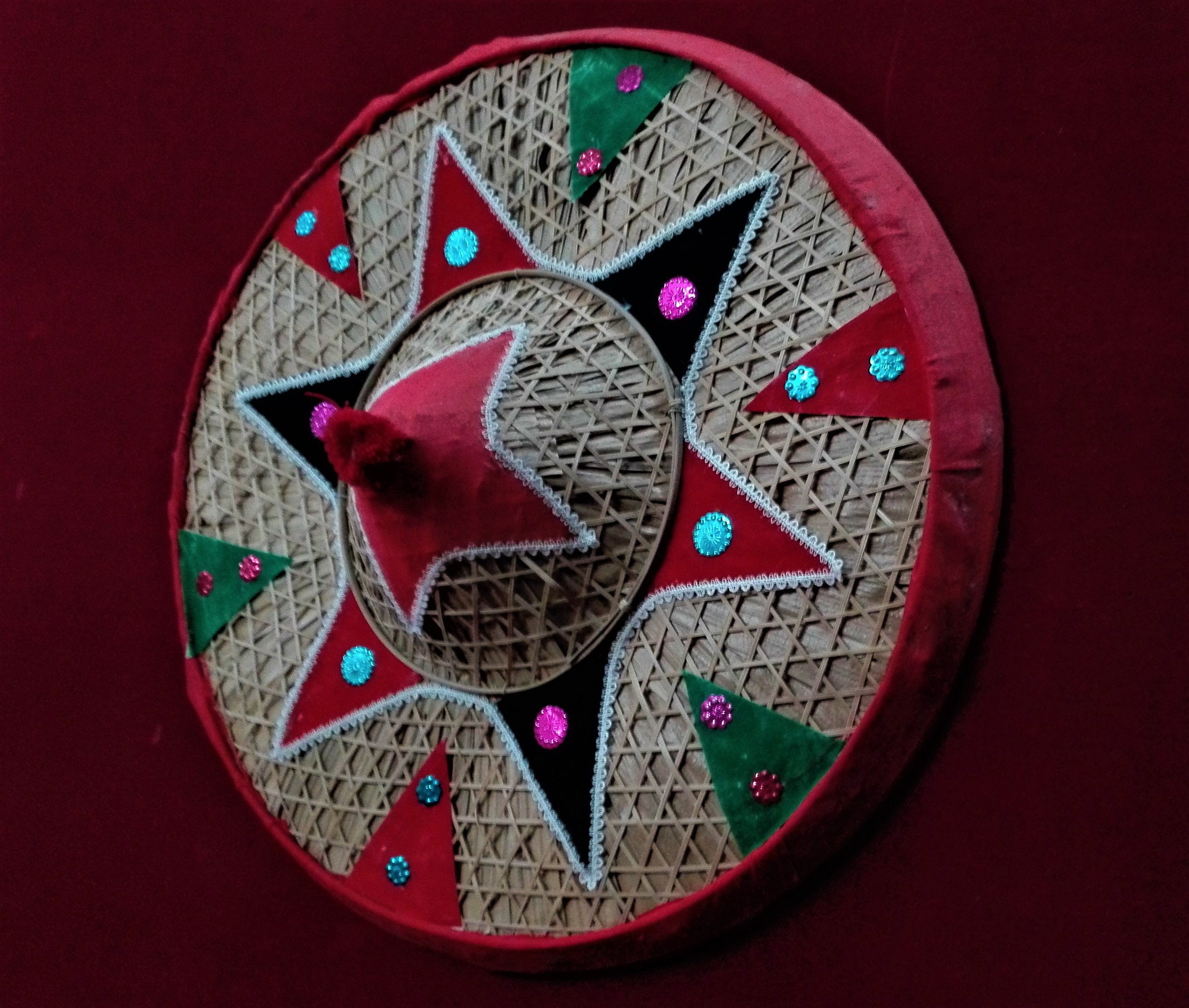 A picture of a Jaapi (জাপি), a traditional conical hat from Assam, India made from tightly woven bamboo and or cane and palm leaf (tokou paat) . This photo has been taken in the country: India